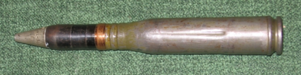 23 milimeter AAA shell for ZU-23-2 and ZSU-23-4 guns